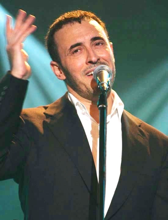 Kathem Al Saher performing